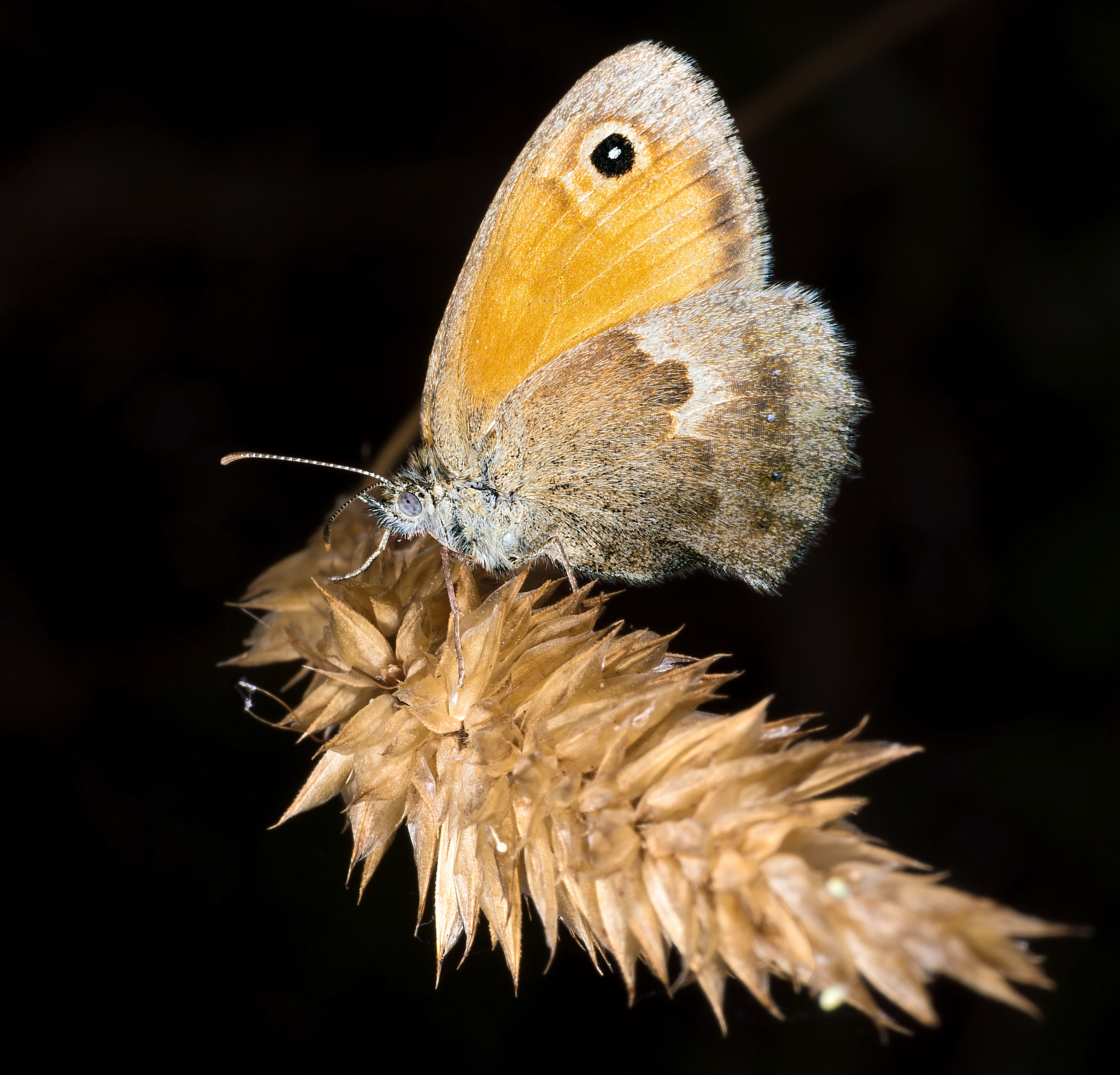 Small Heath, on wheat ears at sunset.